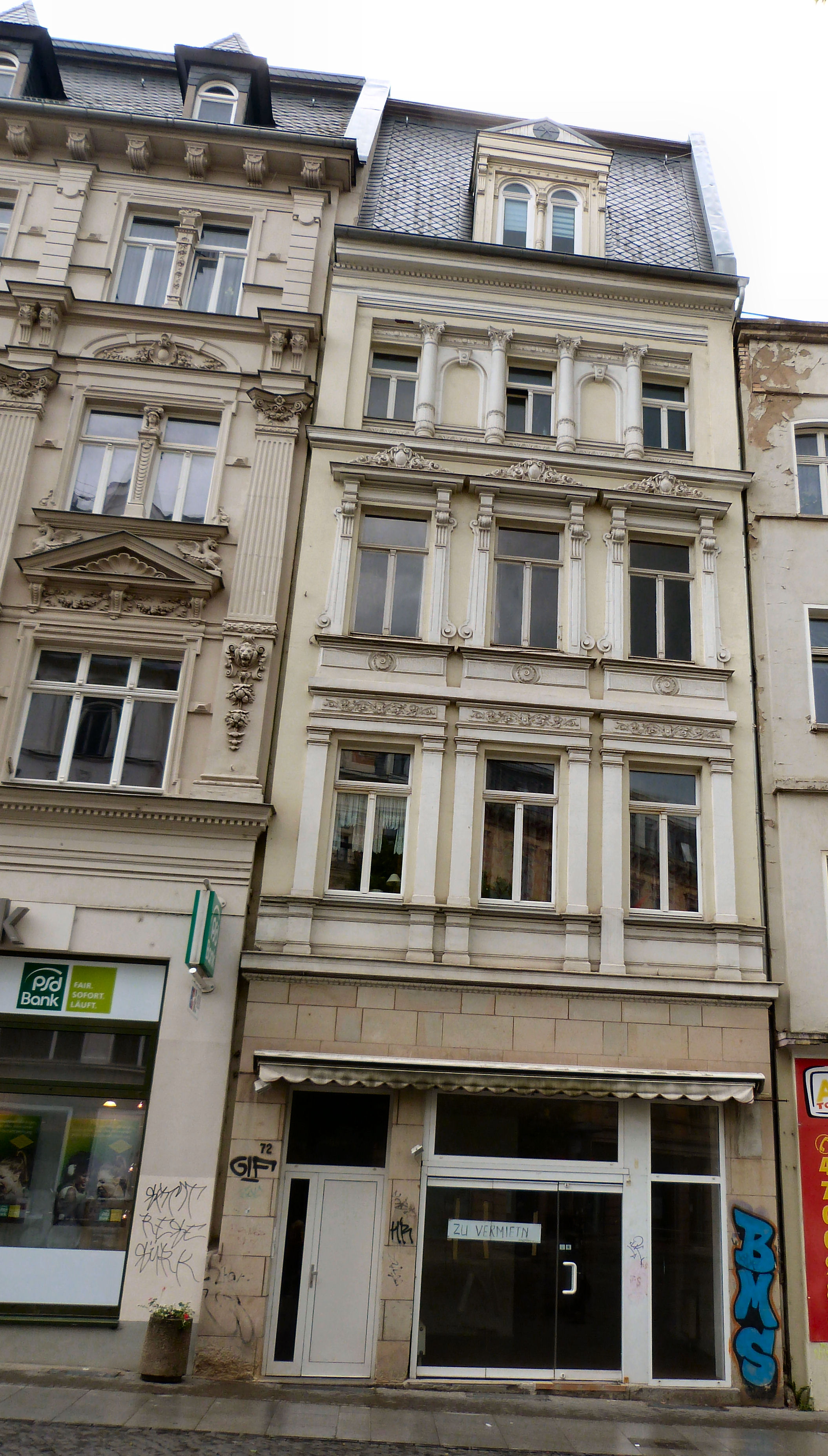 House No. 72, Leipziger Strasse in Halle (Saale)